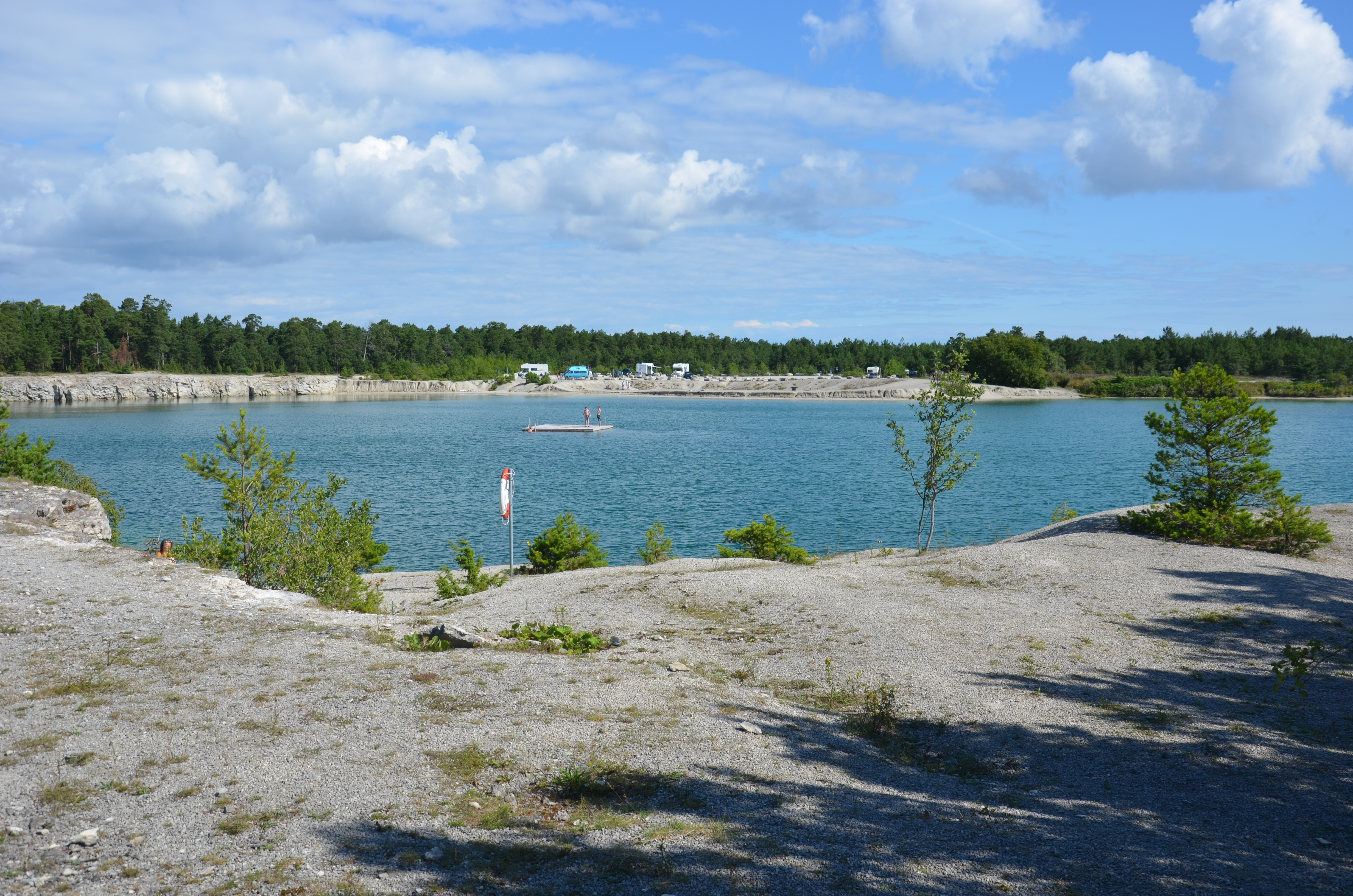 Blå lagunen i Ar. Bilden tagen söderifrån mot stora badplatsen